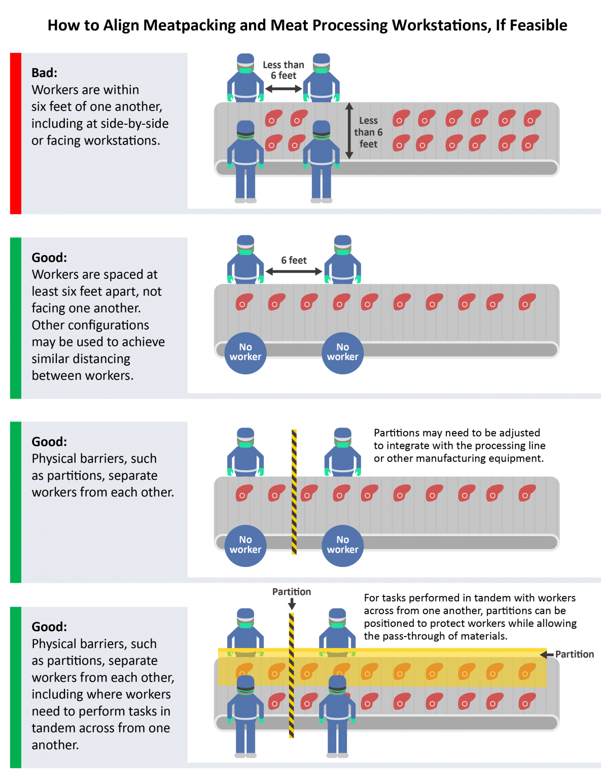 COVID-19 Meat and Poultry Processing Workers and Employers Interim Guidance: Modify the alignment of workstations, including along processing lines, if feasible, so that workers are at least six feet apart in all directions (e.g., side-to-side and when facing one another), when possible. Ideally, modify the alignment of workstations so that workers do not face one another. Consider using markings and signs to remind workers to maintain their location at their station away from each other and practice social distancing on breaks.